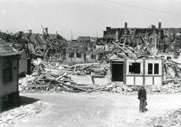 Damaged houses in Rønne after bombings by Russian aircraft